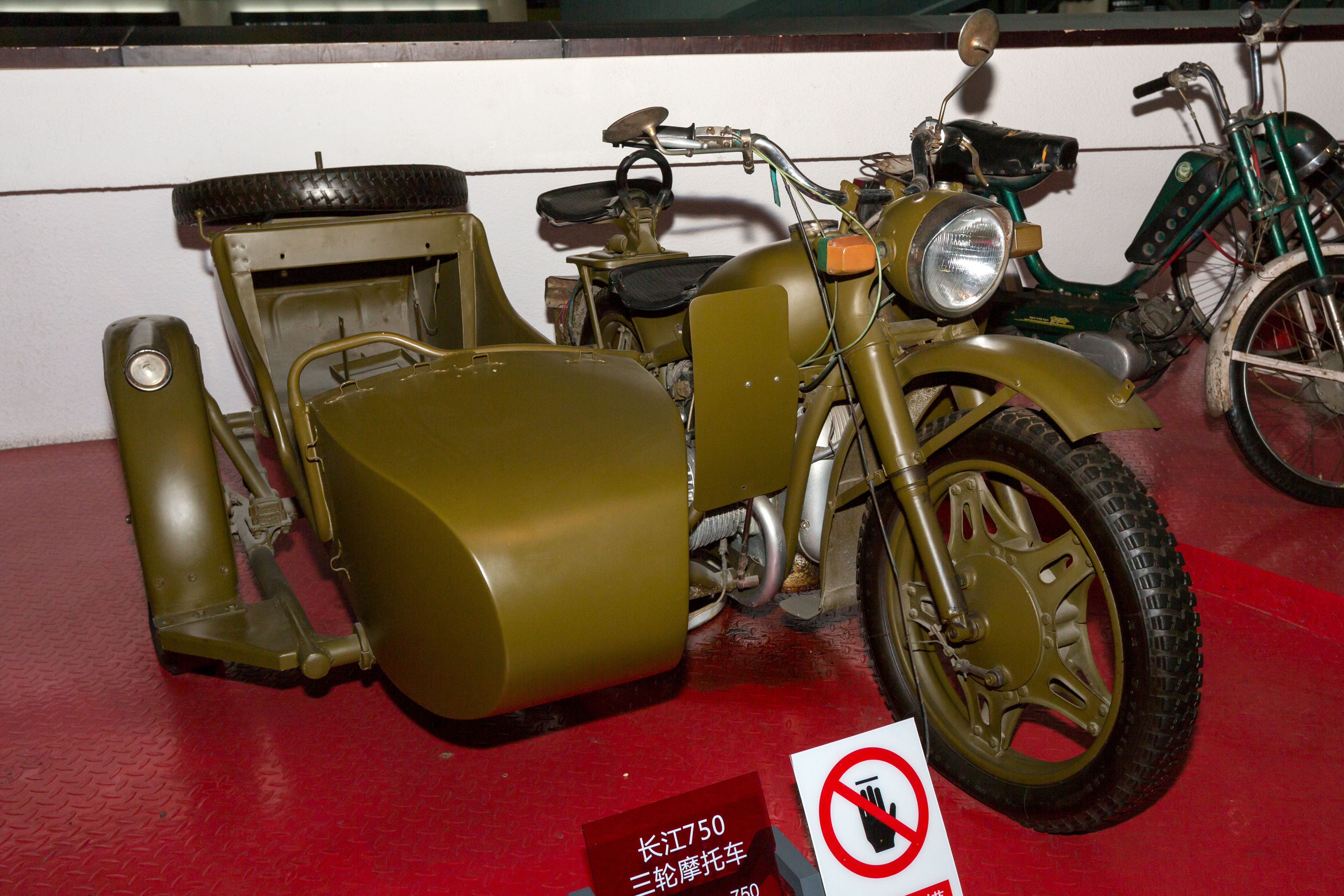 Chang Jiang CJ750